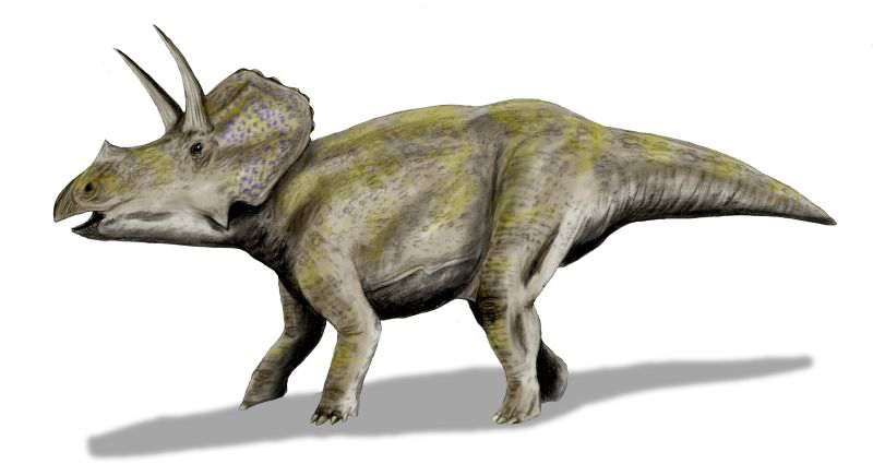 Eotriceratops xerinsularis, a recently discovered (Wu et al., 2007) ceratopsian from the Late Cretaceous of North America, that might have been the direct ancestor of Triceratops, pencil drawing, digital coloring